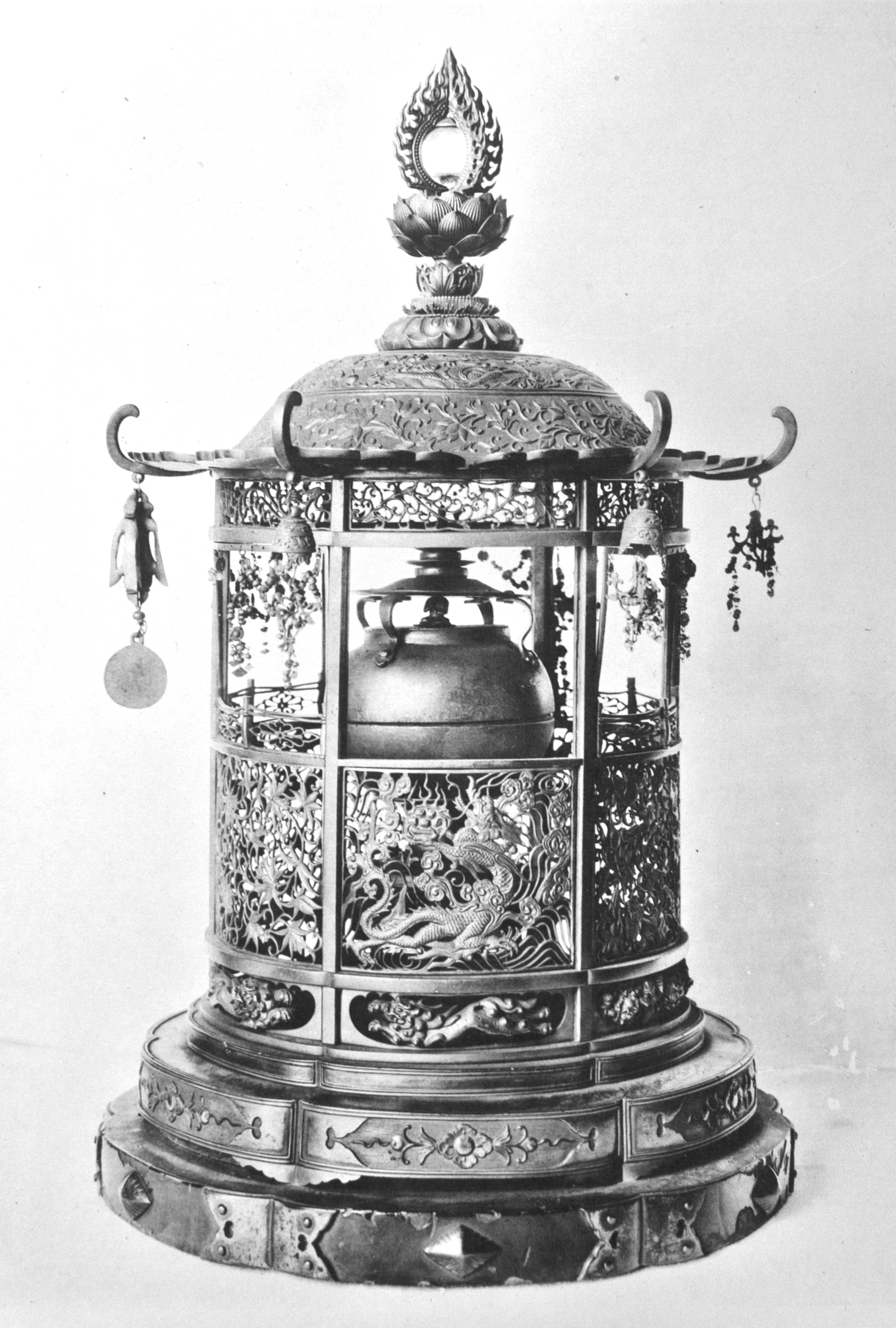 Saidaiji, Nara, Japan